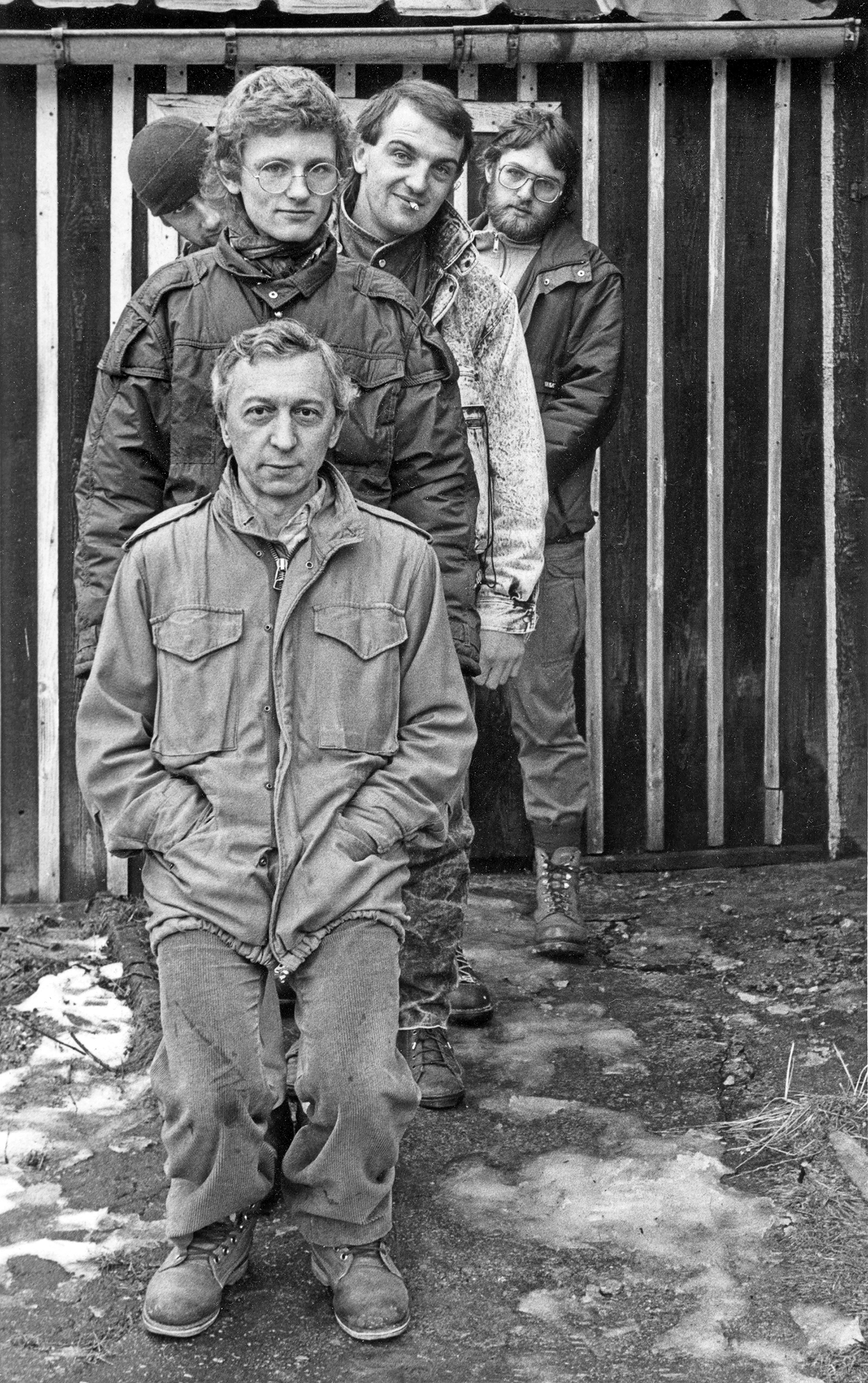 Jerzy Olek during the photo workshop "Participation in the community", 1988